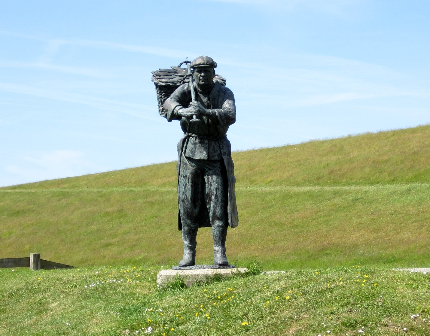 'De Waadfisker' ("The Wadden Sea Fisherman"), monument for the herring fishermen in Koehoal (Koehool), Tsjummearum (Tzummarum), Friesland, the Netherlands.